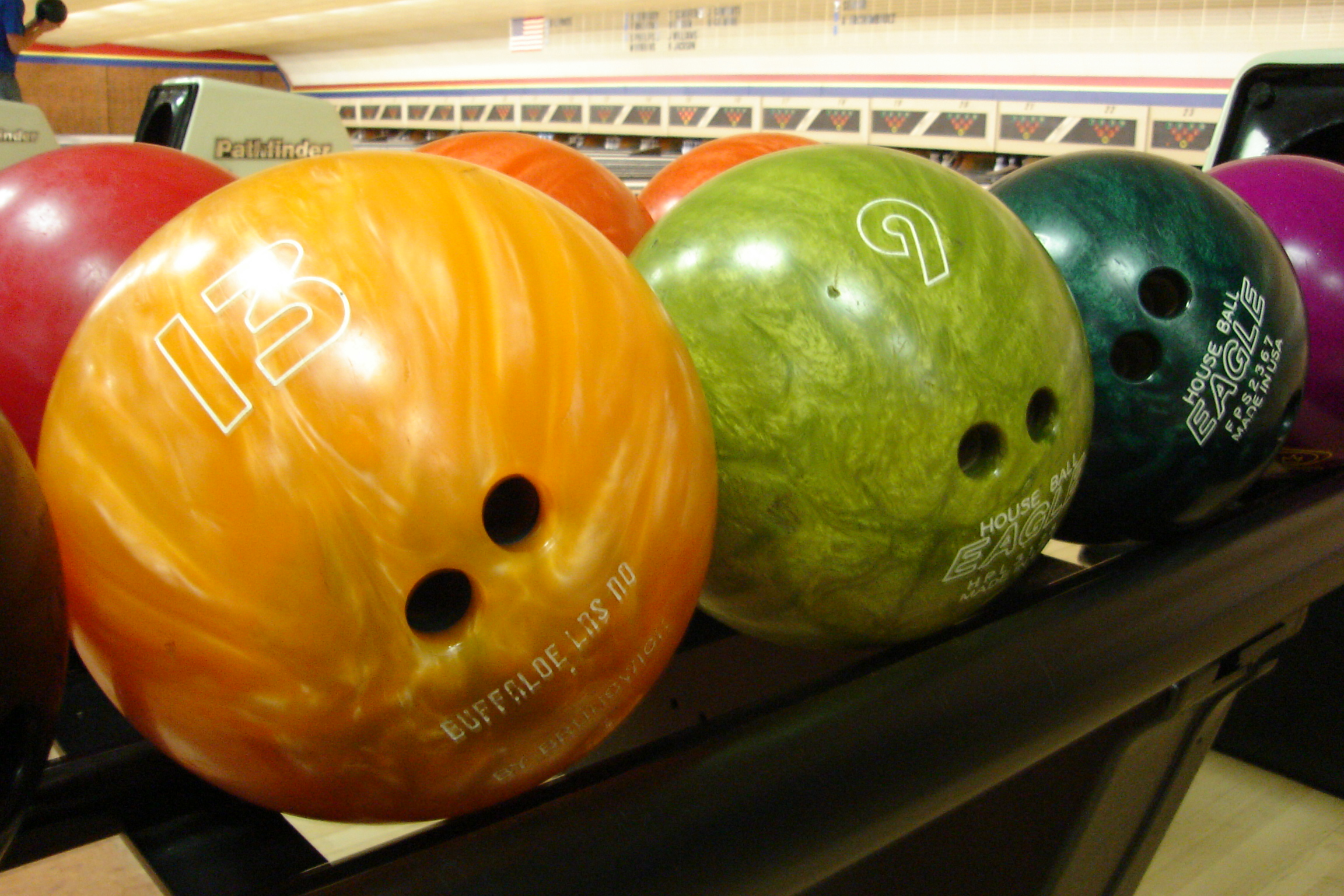 Bowlingballs on ball return